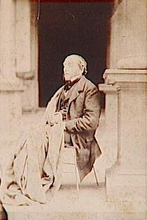 Portrait of Charles de Beauvau, Prince of Beauvau (1793-1864)